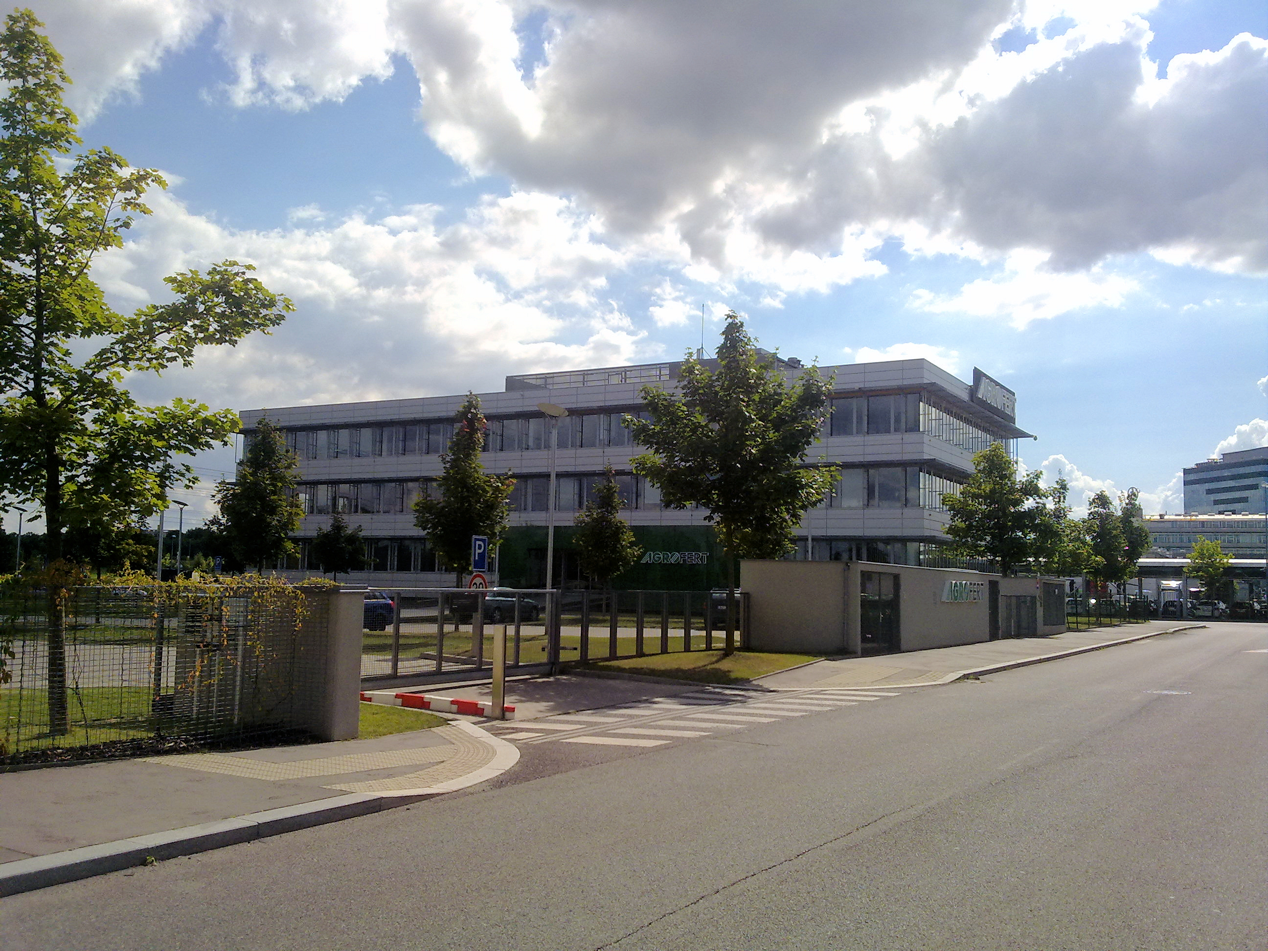 Headquarters of Agrofert Holding